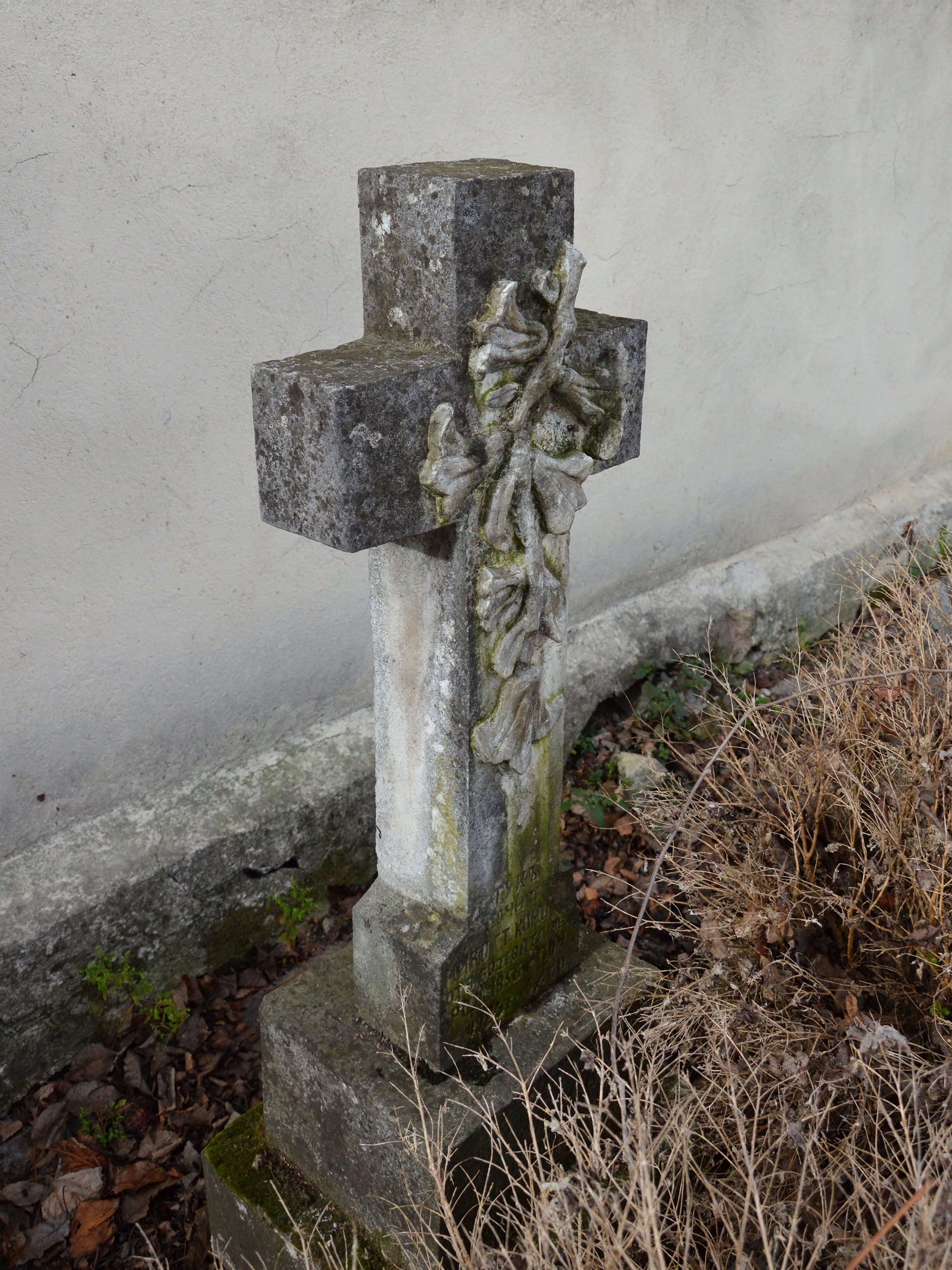 Church of Saints Cosmas and Damian in Skravena, Bulgaria. Tombstone of Мiko Stoyanov Solarski (1856-1926) - member of the cheta of Hristo Botev.